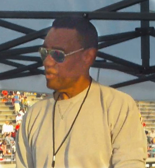 Ed Caruthers at the 2012 CCCAA State Championships